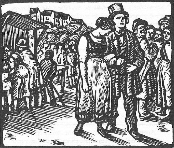 Sali and Vrenchen at the Fair